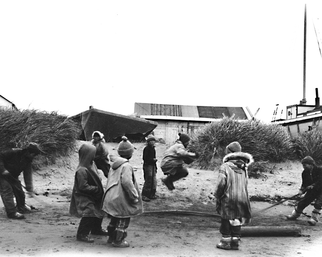 Nunivak Children Playing Jump-Rope This picture was taken in 1940-1941. They are the same children as in AKHIST5021 (cant find this on the website). FWS keywords Yukon Delta National Wildlife Refuge; ARLIS; Alaska Source FWS-4955 Rights Public domain